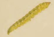 Stainton’s Natural History of the Tineina (1855–1873): Micrurapteryx kollariella